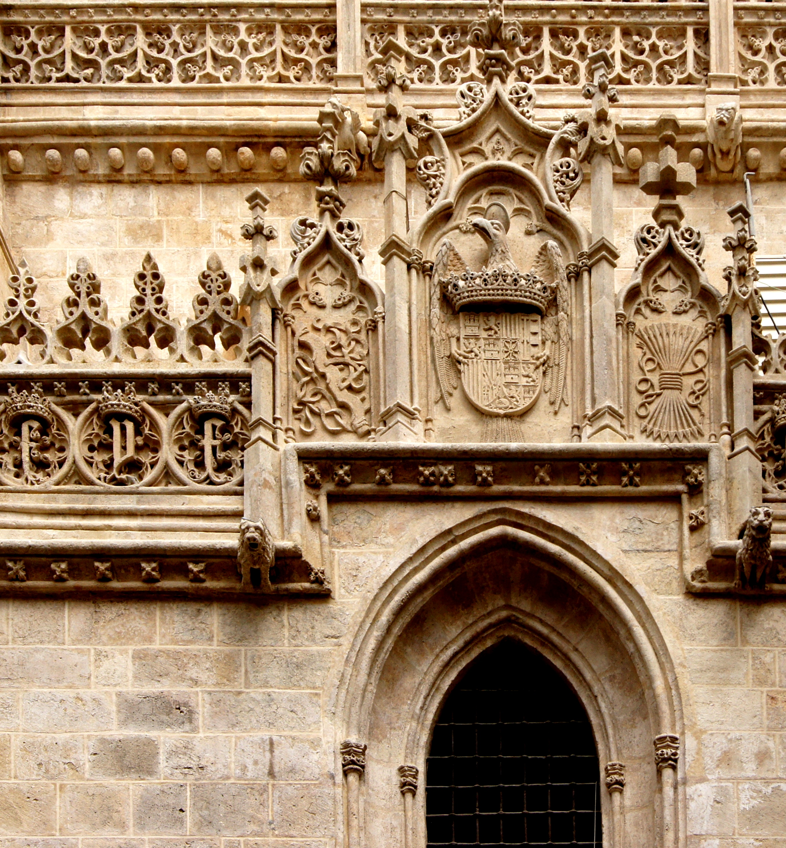 symbols and CoA of Ferdinand of Aragon and Isabella of Castile, (The catholic Kings) on a wall of the Capillar Real, where they are buried, in Granada, Spain